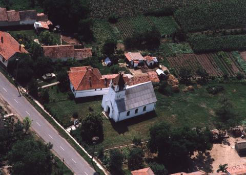 Tomajmonostora, Hungary, aerialphotgraphy